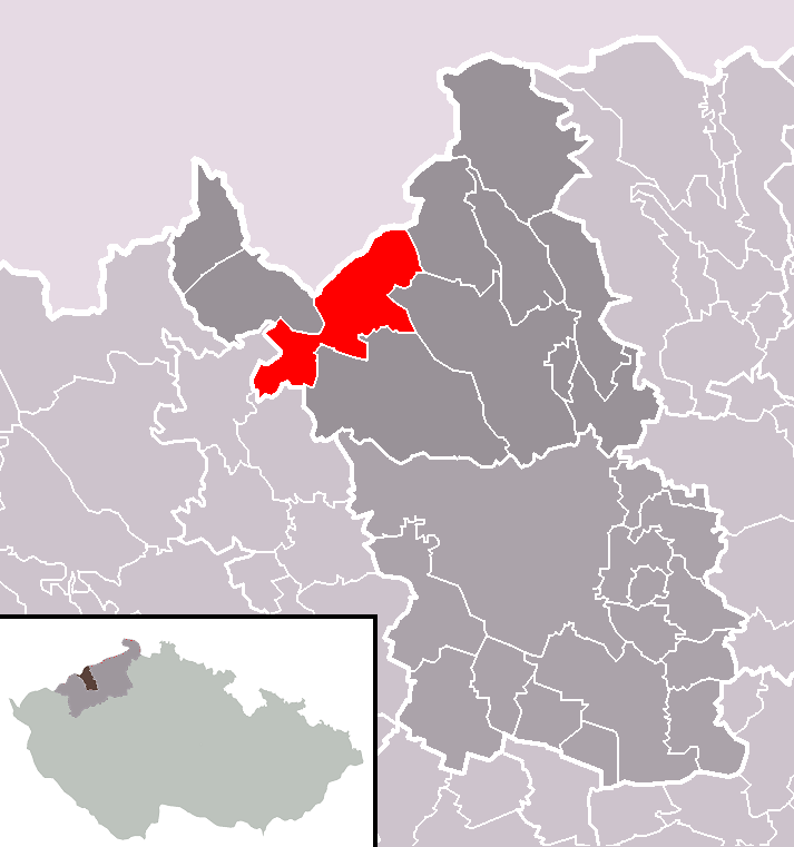 Location of Nová Ves v Horách municipality within Most District and administrative area of Litvínov as a Municipality with Extended Competence.